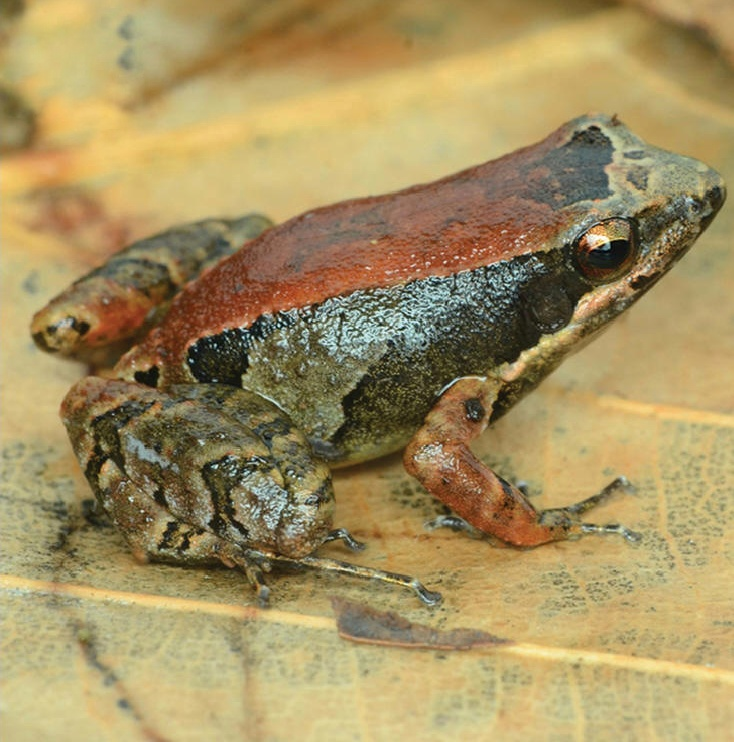 Estação Ecológica Wenceslau Guimarães